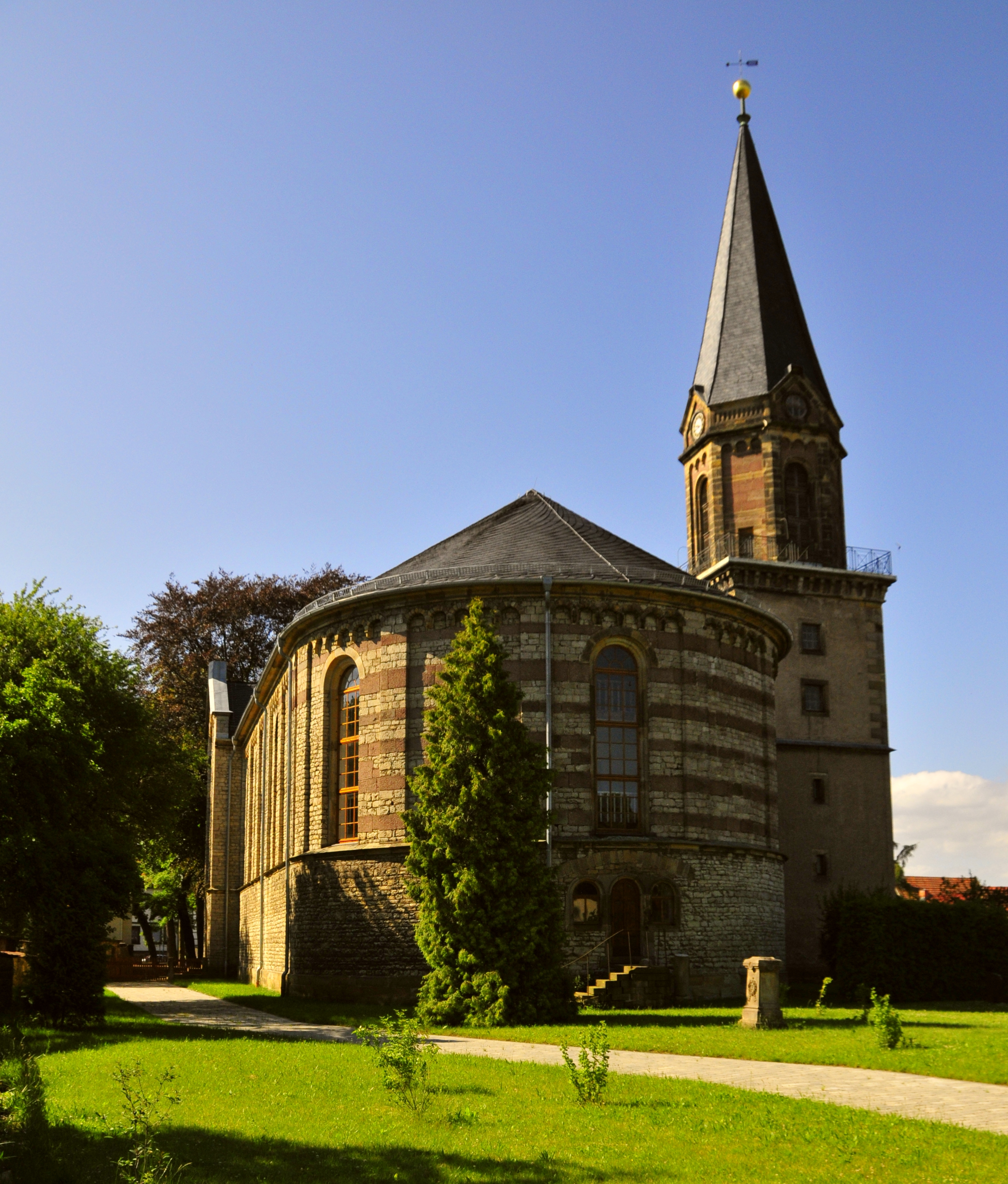 Church in Emleben (Gotha)